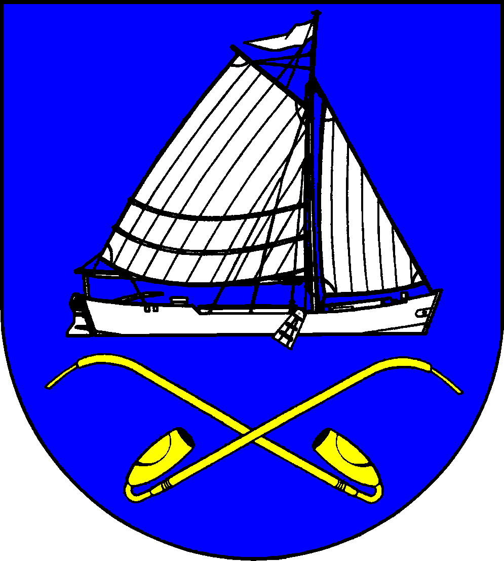 Coat of arms of the municipality Kudensee in Schleswig-Holstein, Germany.